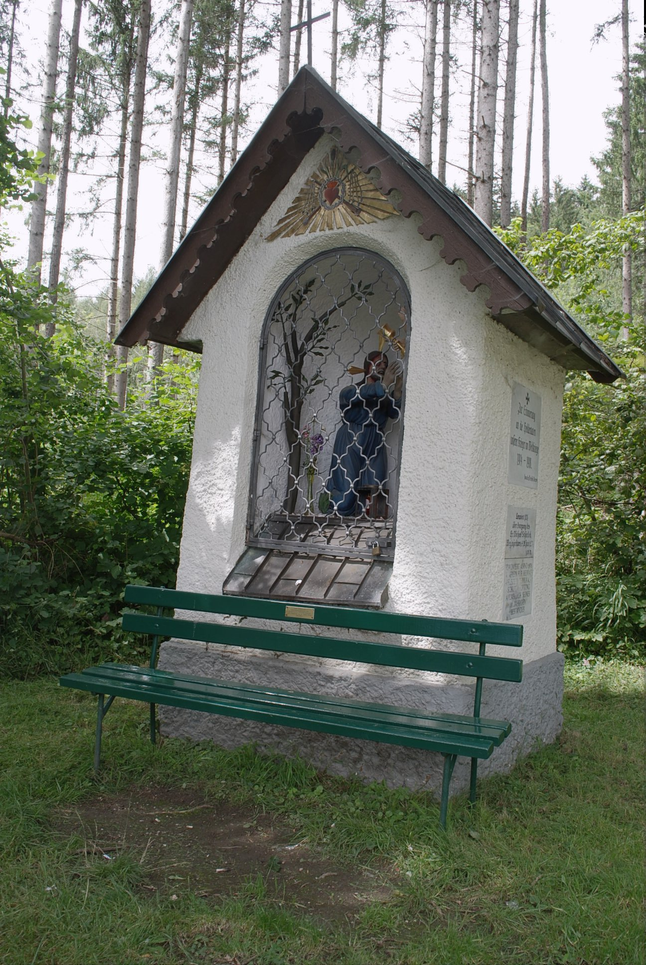 Ölberg chapel, Innsbruck, Austria